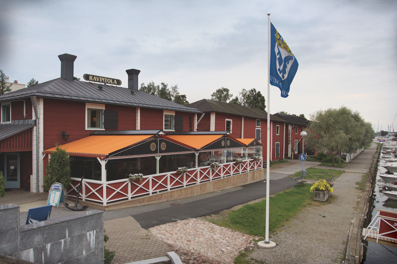 Old salt houses in city bay in Uusikaupunki, Finland